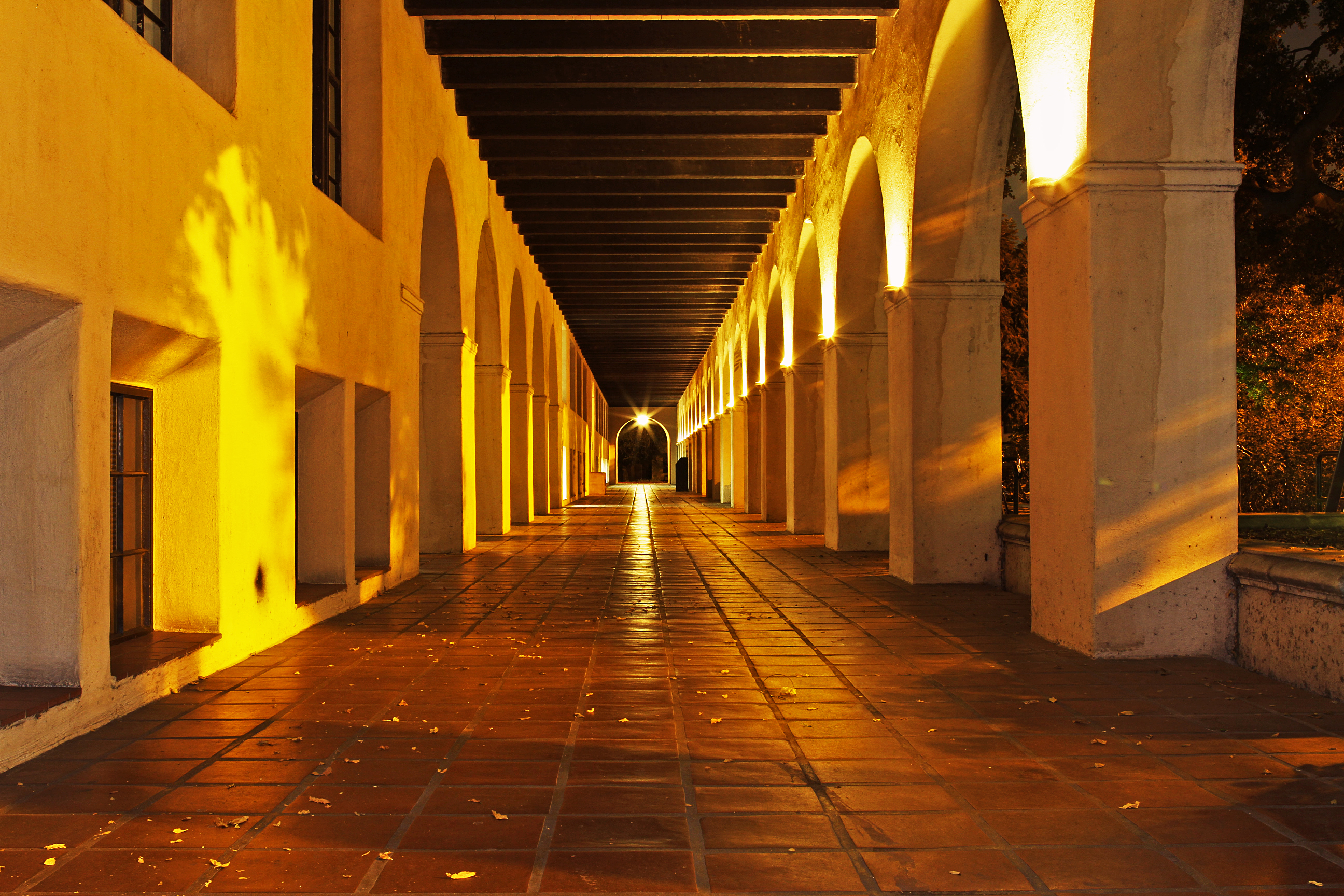 Hallway of Arms Laboratory